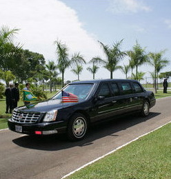 The limo of the POTUS. President George W. Bush's motorcade en route to Granja do Torto Saturday, Nov. 6, 2005, the home of Brazil's President Luiz Inacio Lula da Silva.